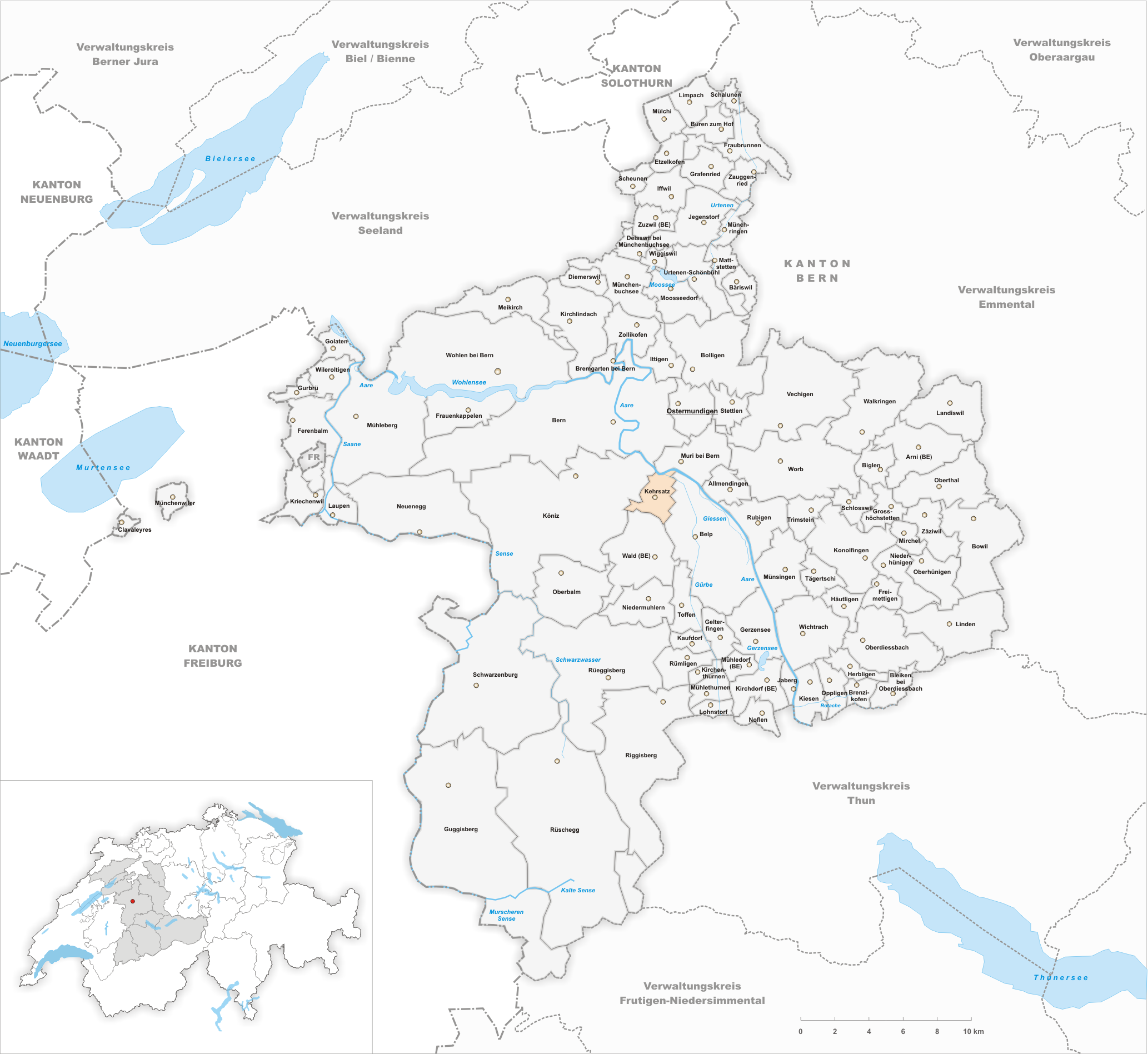 Municipality Kehrsatz